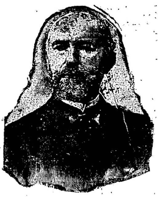 Nikolaos Deligiannis (1845, Athens – 1910, Paris)[1] caretaker Prime Minister of Greece from January to June 1895 and diplomat (ambassador)